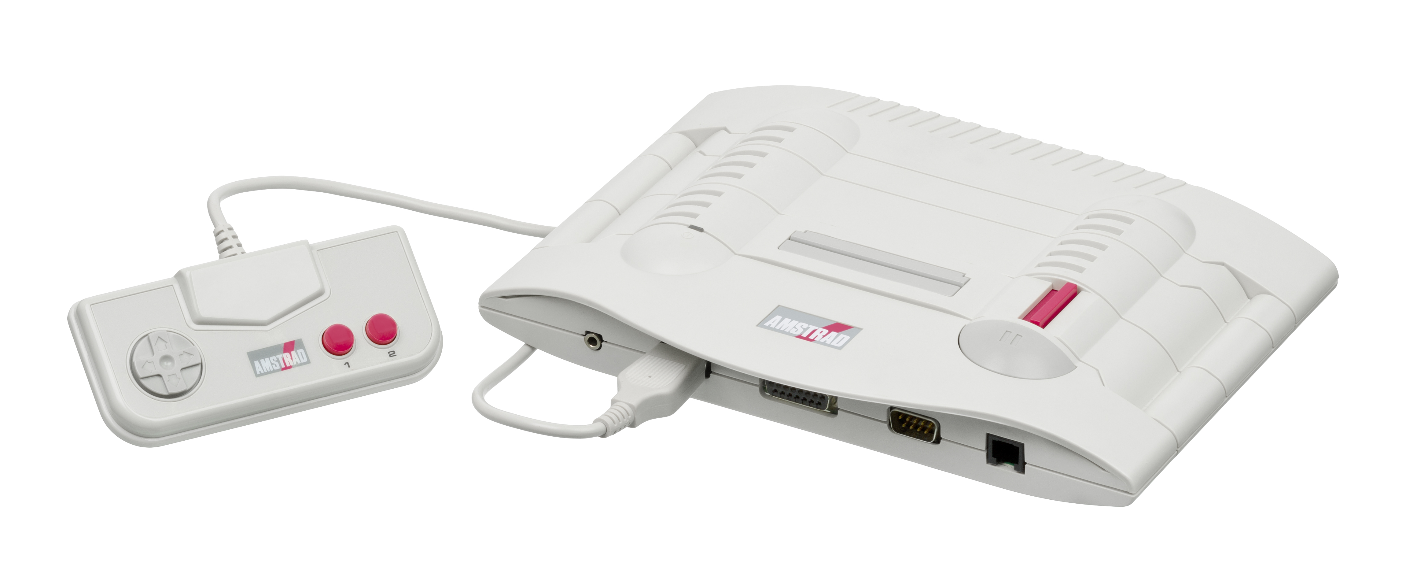 The Amstrad GX4000, a video game console released by Amstrad in 1990. This Europe-exclusive console was a repackaging of Amstrad's line of CPC Plus computers, offering direct conversions of CPC Plus titles. It was only on the market for a short while before being discontinued.